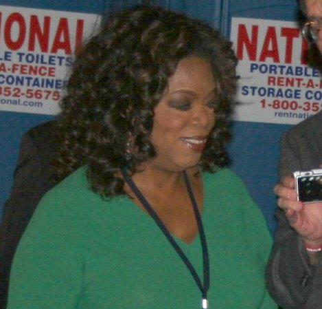 Oprah Winfrey at Obama victory, toilet visit